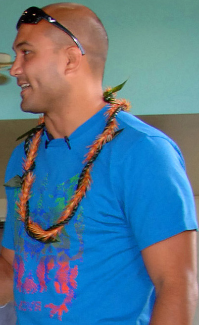 B.J. Penn